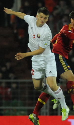 Belarusian football player Stanislaw Drahun (Станіслаў Драгун) during 2014 World Cup qualifier against Spain